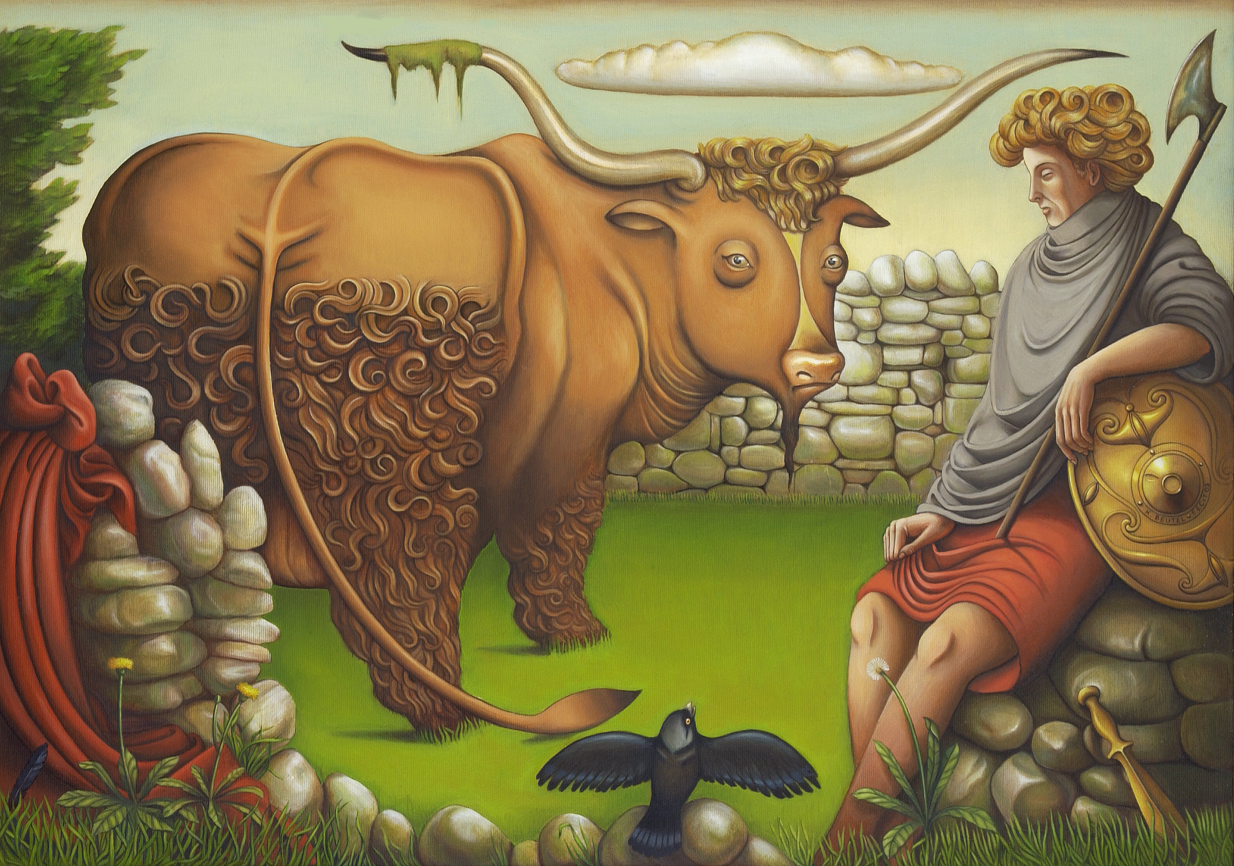 by Karl Beutel 2003 Oil on Canvas ( 20 x 30 inches ) Armagh County Museum Collection, purchased through the Art Fund 2006